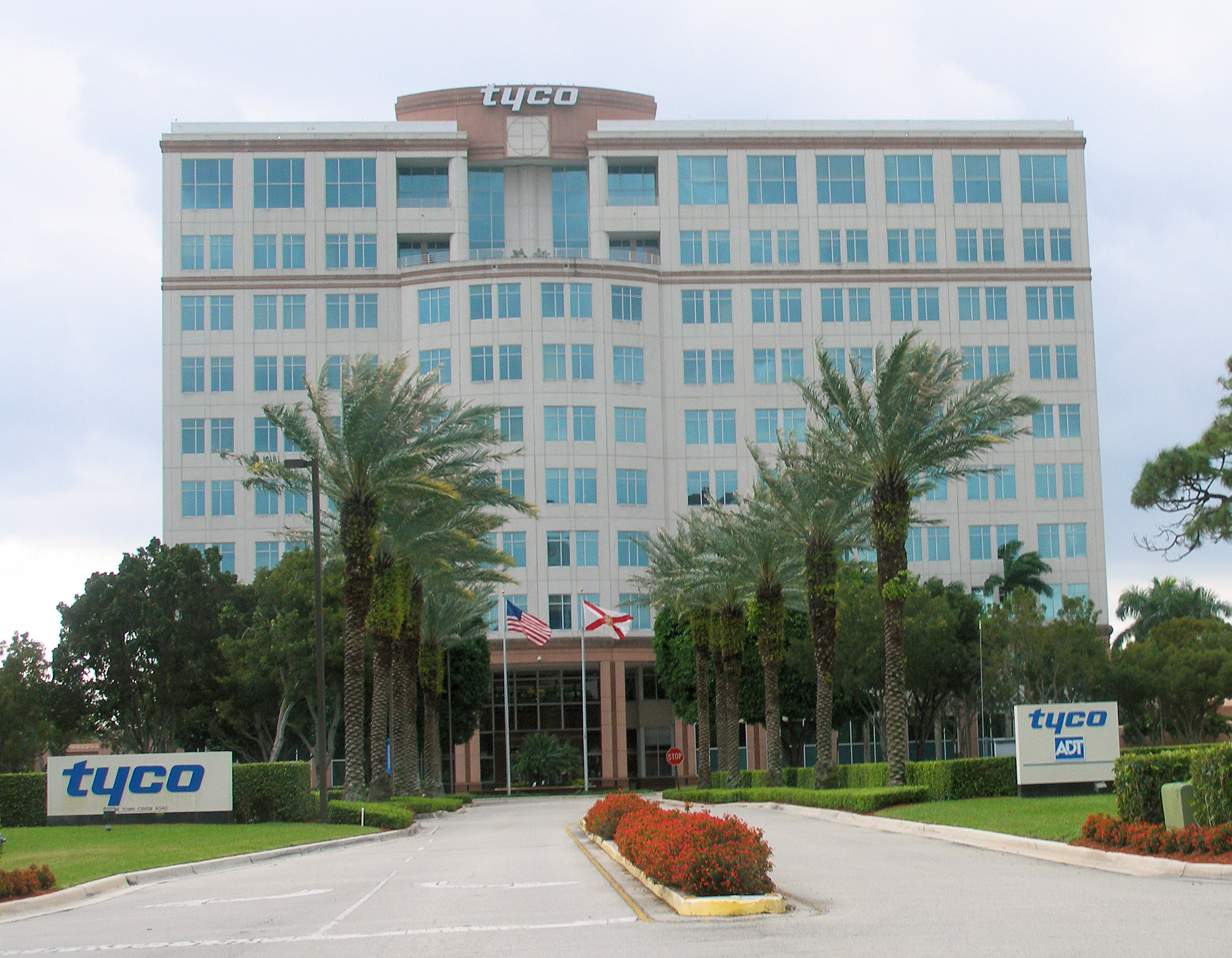 Tyco Fire & Security headquarters in Boca Raton, Florida. Several Tyco International subsidiaries are headquartered in this building, including ADT Security Services, Sensormatic, and SimplexGrinnell.